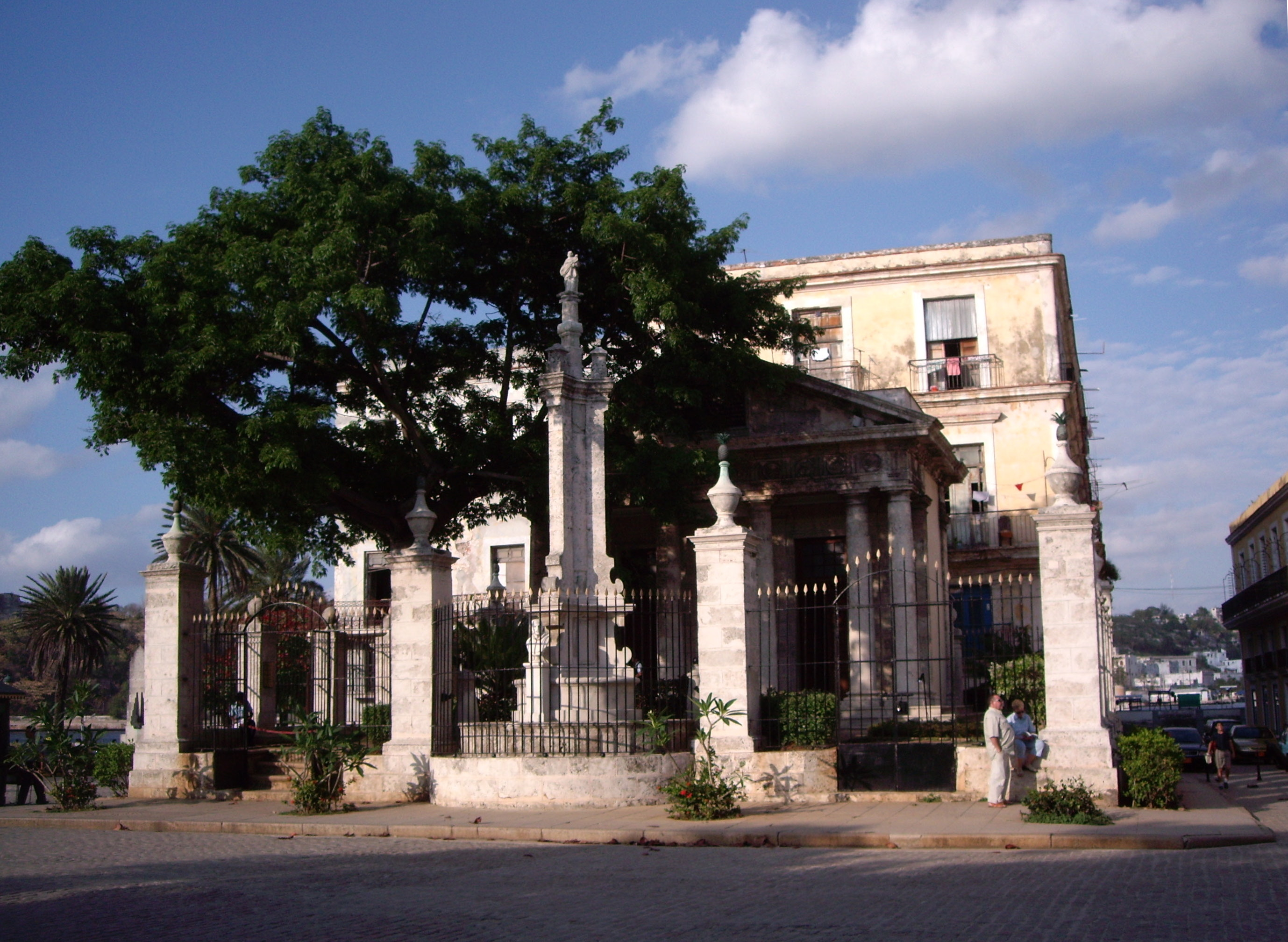 El Templete (Little Temple) foundational place of Havana